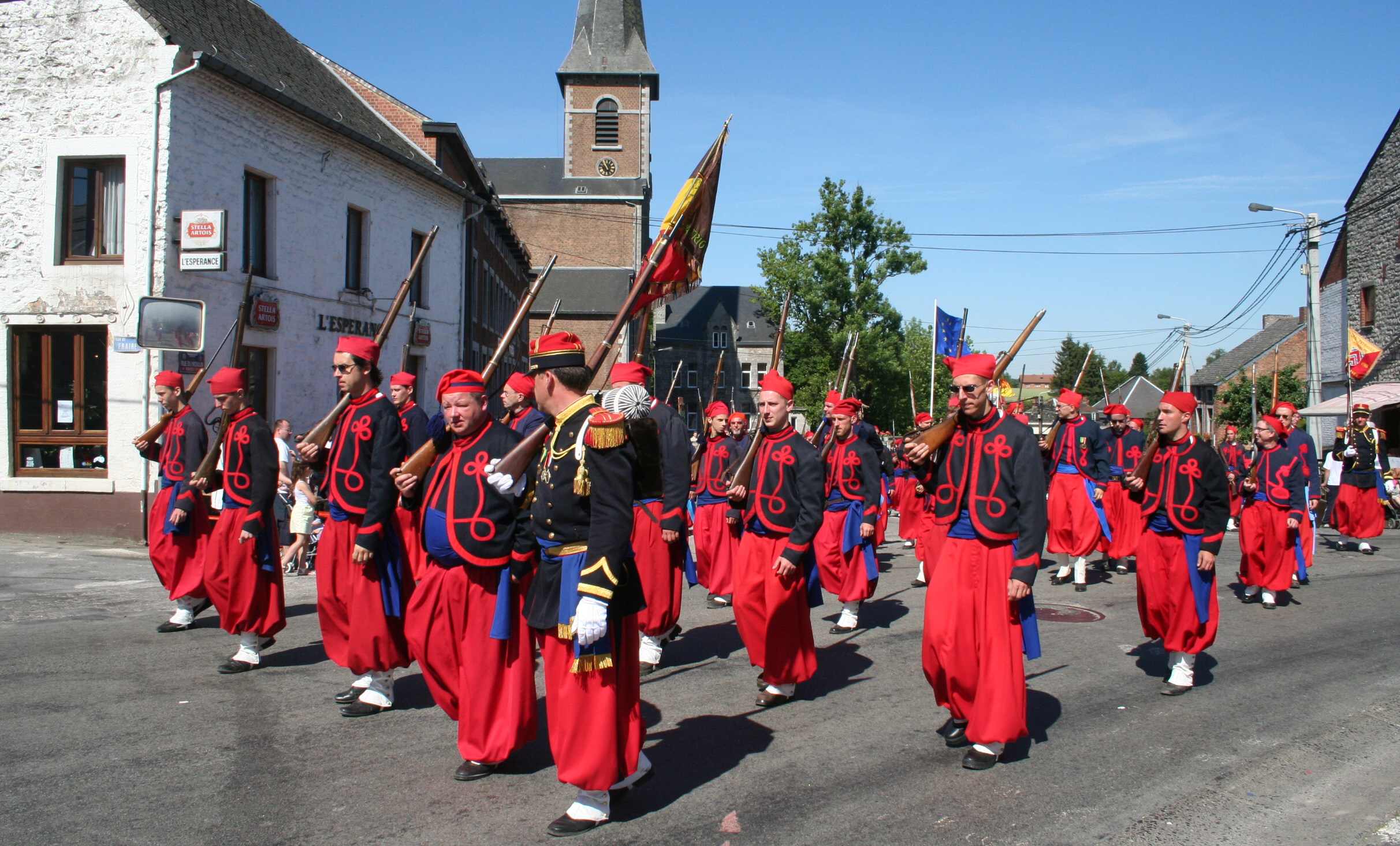 Morialmé (Belgium), the zouaves of the St. Peter procession.